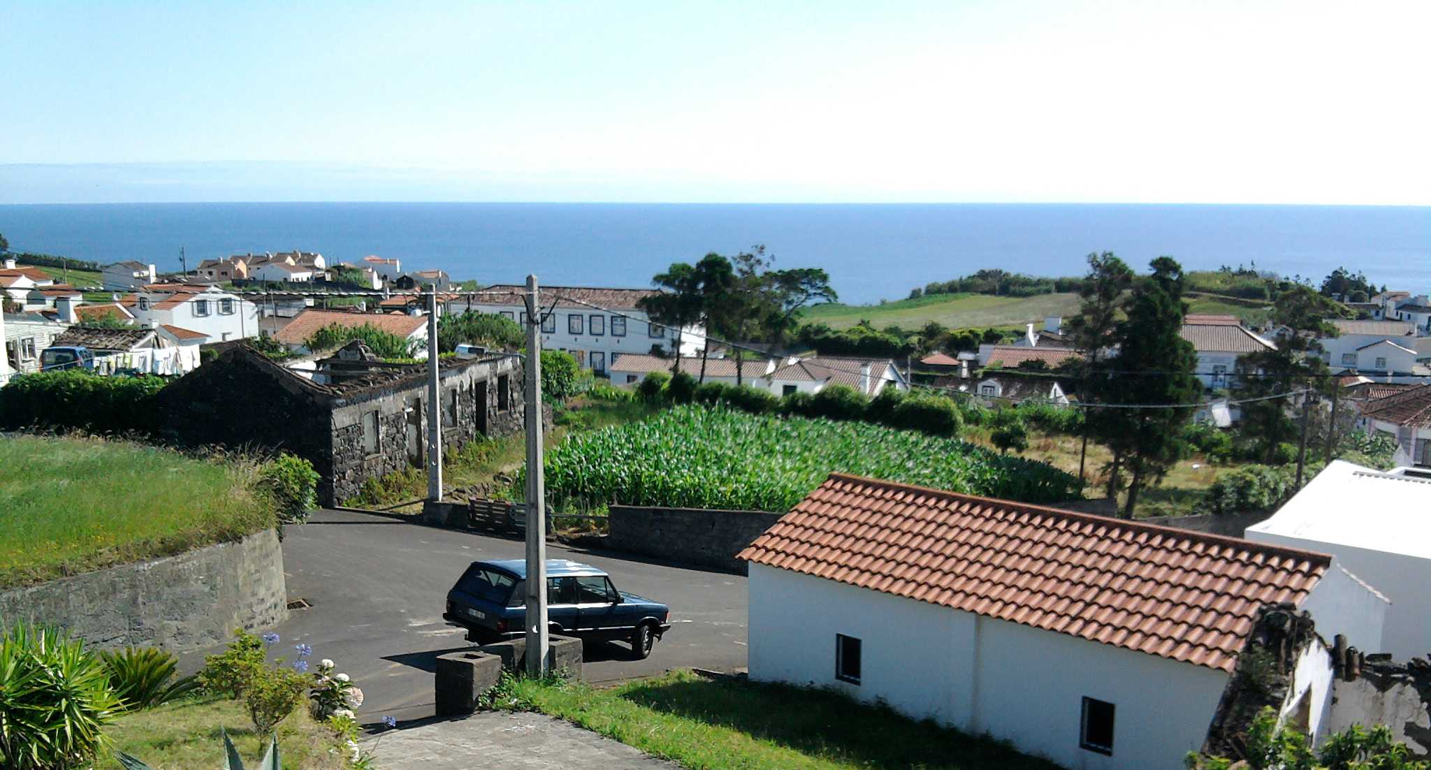 Parish of Fazenda